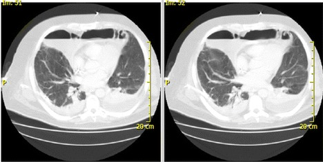 CT scan